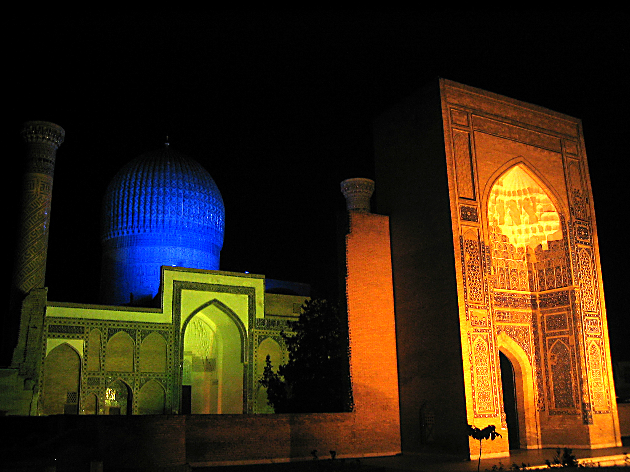 The mausoleum Gur-e Amir in Samarqand with illumination during the night.